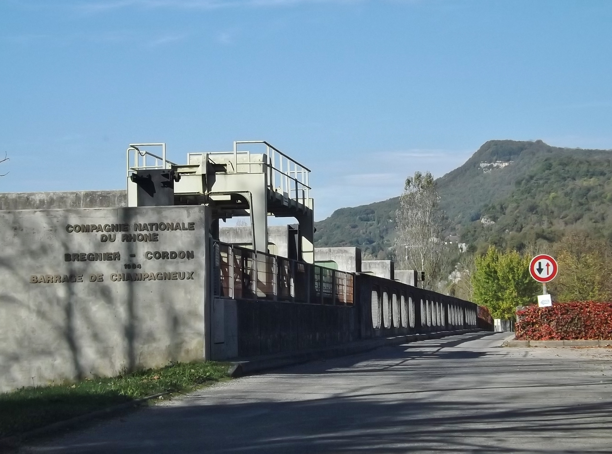 Sight of the barrage de Champagneux dam crossing the Rhône river in France, here on the Savoyan side (RD 125 road).